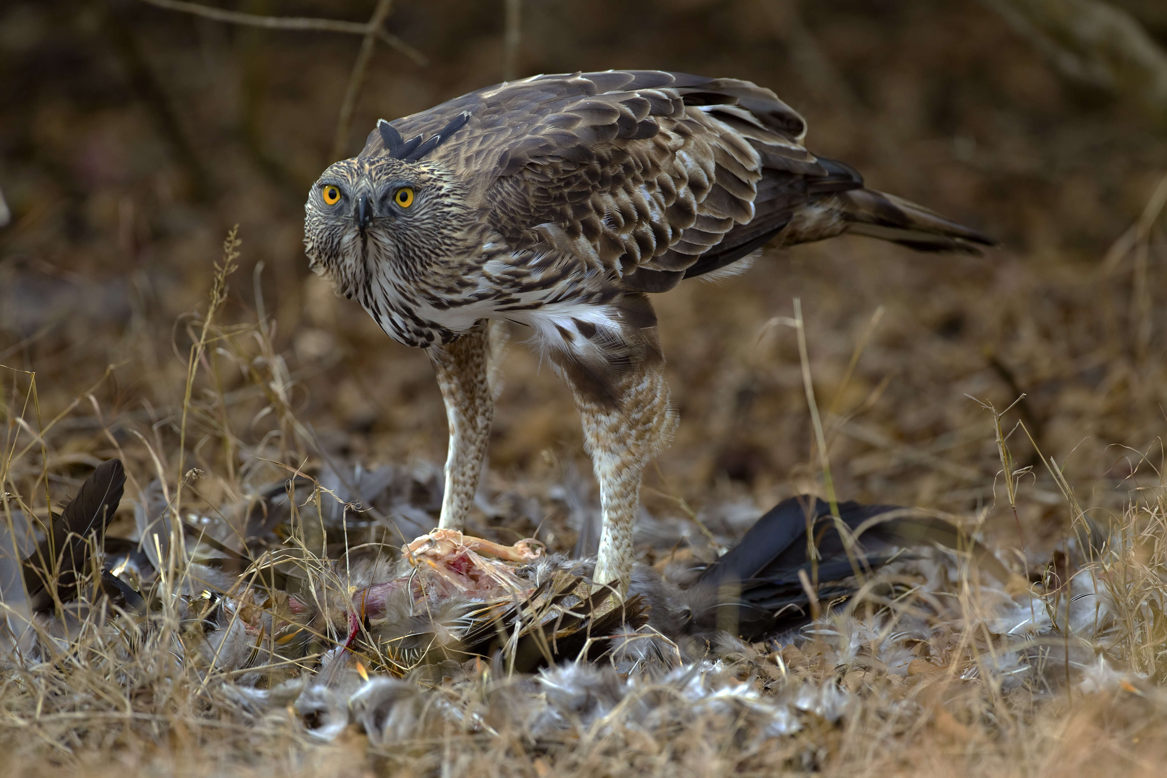 Changeable Hawk-eagle Nisaetus cirrhatus in Bandipur National Park